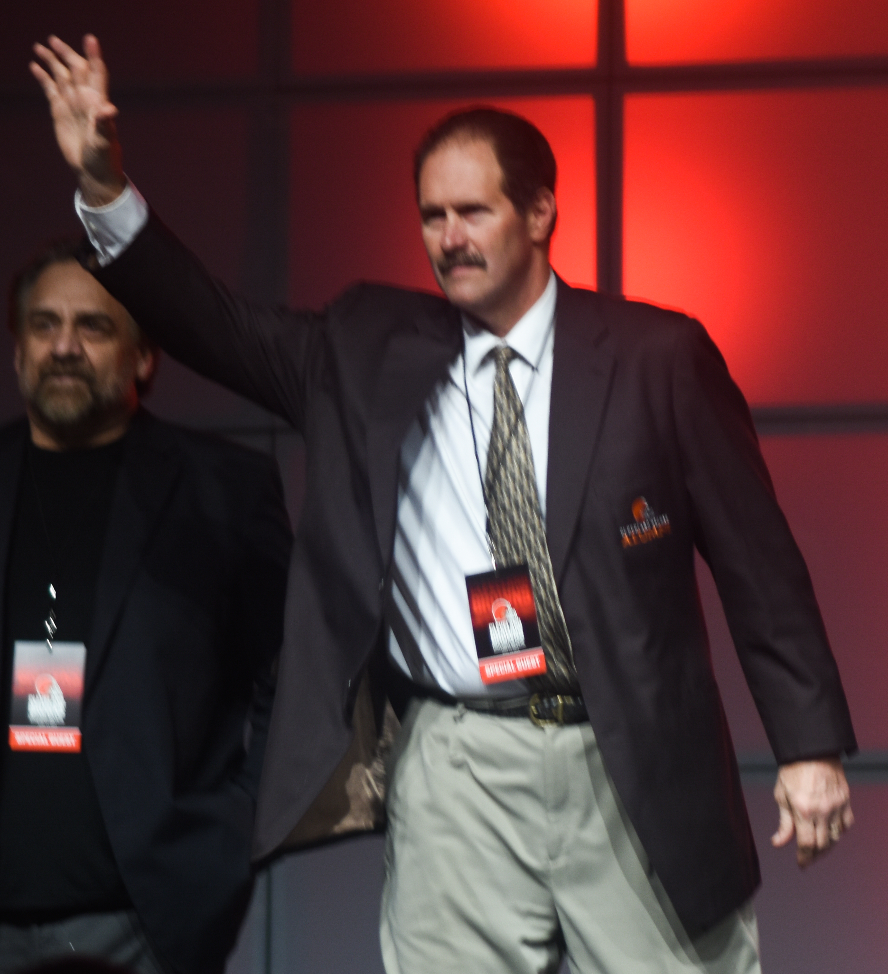 Cleveland Browns New Uniform Unveiling